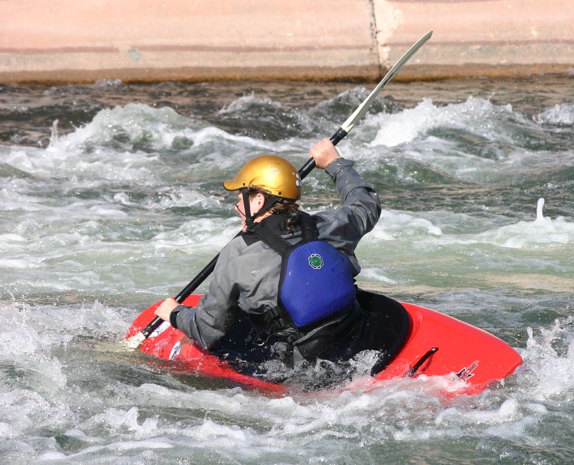 Playboater tilting his boat in Pueblo, Colorado, USA